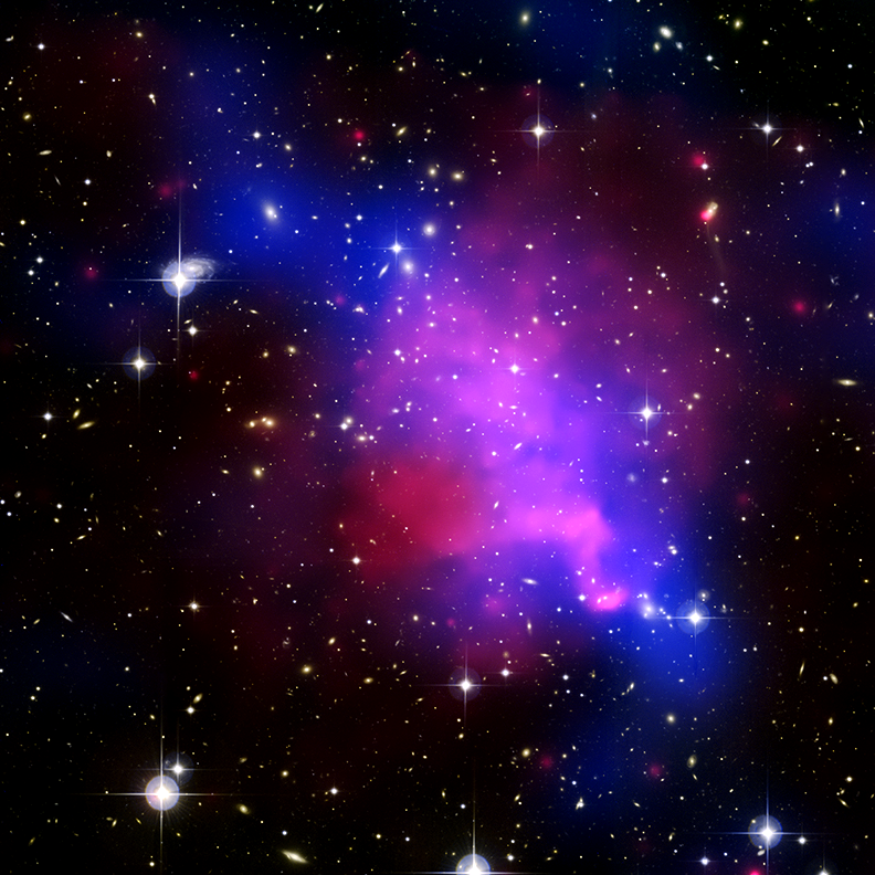 Abell 520 galaxy cluster with regions dominated by Dark matter color coded blue. The configurations evident in this photograph indicate a possible self-interaction of dark-matter through an as-yet unknown force or forces.